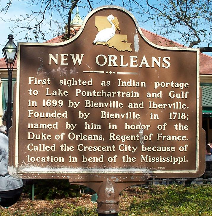 Photo of historical sign in New Orleans